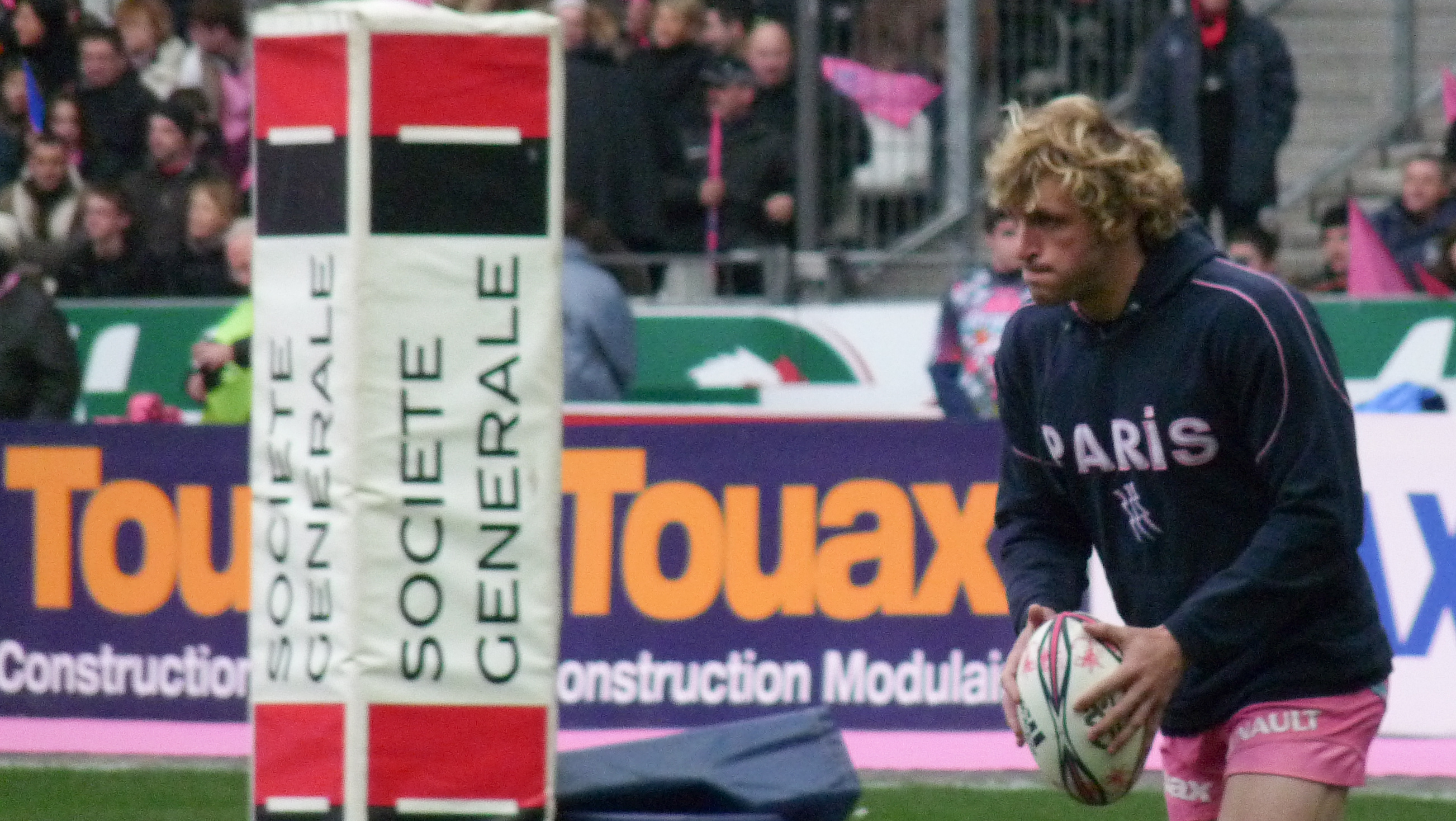 Bergamasco warming up for Stade Francais in the Stade de France